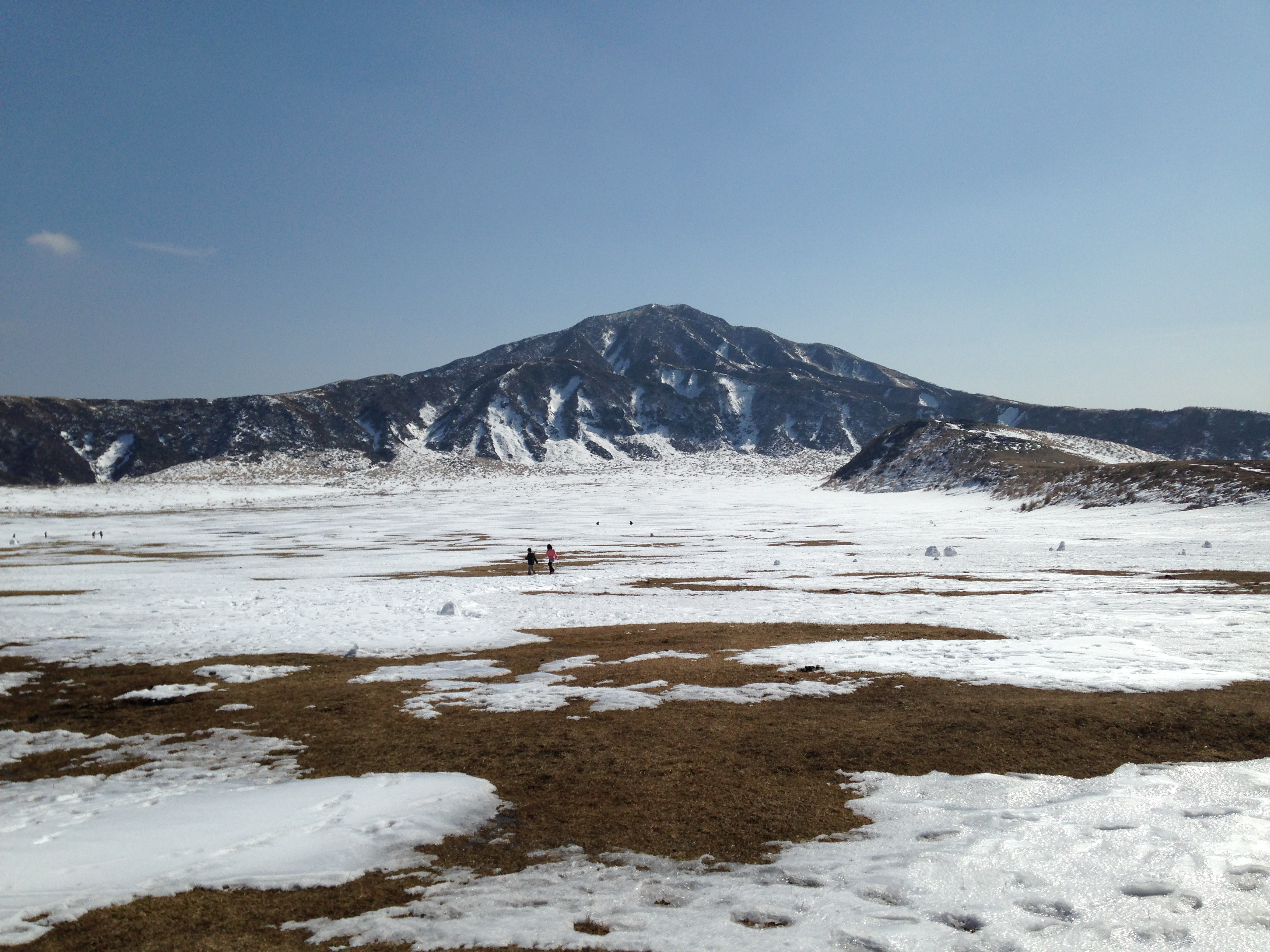 Mount Eboshi and Kusasenrigahama in winter